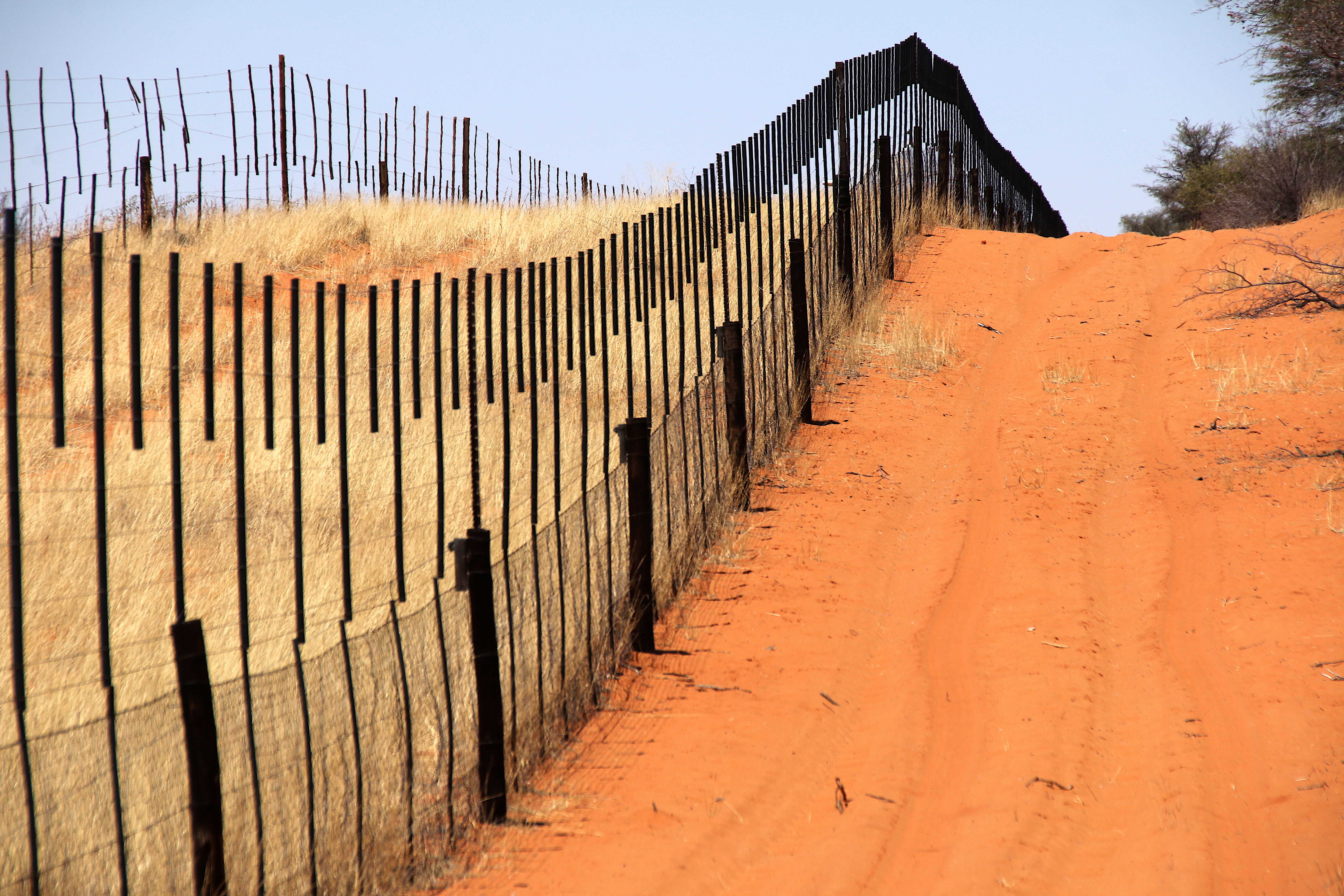 Border fence between Namibia and Botswana (2018)